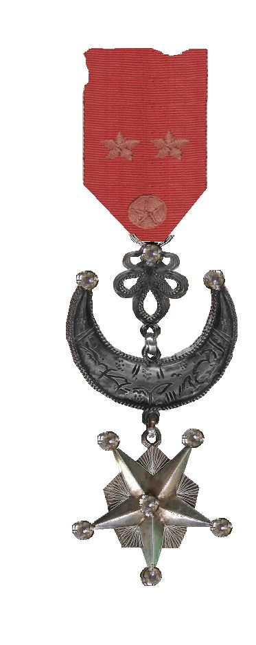 The Order of Said Ali, Comorran Islands 1886 Grande Comore